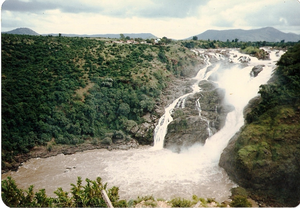 Bharachukki Falls of Cauvery River in Karnataka, India